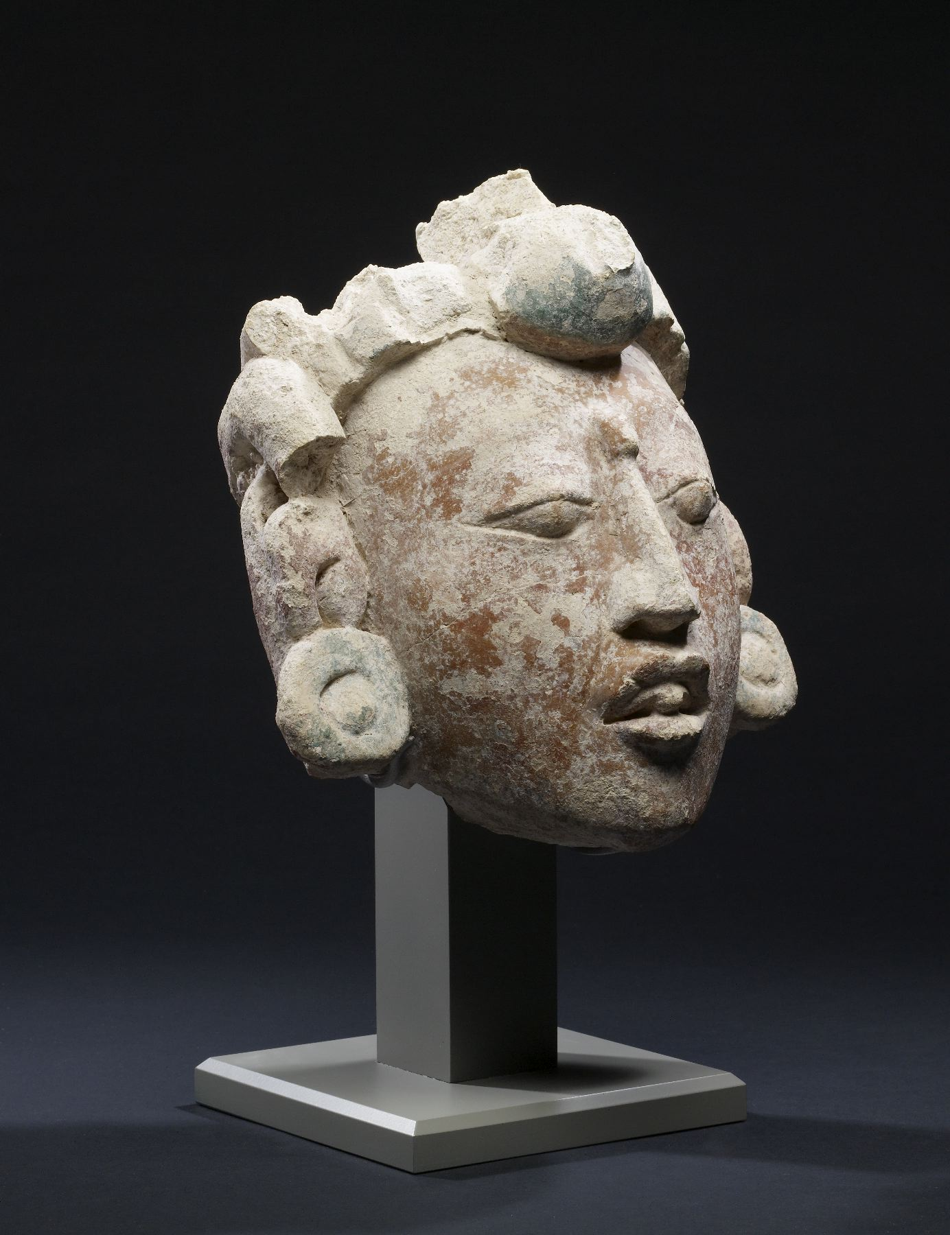 A fundamental feature of Mesoamerican formal architecture was the use of molded, modeled, and carved stucco decoration. Painted either monochrome red or in a variety of colors, these façades narrated key precepts of religio-political ideology, displaying the supernatural patrons and worldly authority of the aristocracy that used the structures. The façade decoration also could reveal a building's function as well as its symbolic identity. This stucco head, which was part of a larger pictorial façade narrative, illustrates the close connection between the gods and Maya aristocracy. The head with intact earflares depicts the maize god, recognized by the tau-shaped tooth, sloping forehead, and tonsured hair. He is adorned with the abundant jadeite jewelry typical of renderings of the deity, including earflares and a tubular bead headband with a large, central diadem. The Maya would often intentionally destroy a building's decorative façade and then collapse the vaulted chambers prior to constructing a new building atop the rubble. Frequently, the rubble contained fragments of the old stucco narrative now buried below the new platform. Most often it is the heads that survive in the debitage which suggests that the Maya paid particular attention to the faces of deities and royalty when they destroyed stucco façades during renovation projects. In addition, stucco façade heads have been found as offerings in tombs or other ritual caches placed inside buildings. Such special treatment indicates the prestige and likely perceived spiritual power of these stucco portraits among the Classic Period Maya.